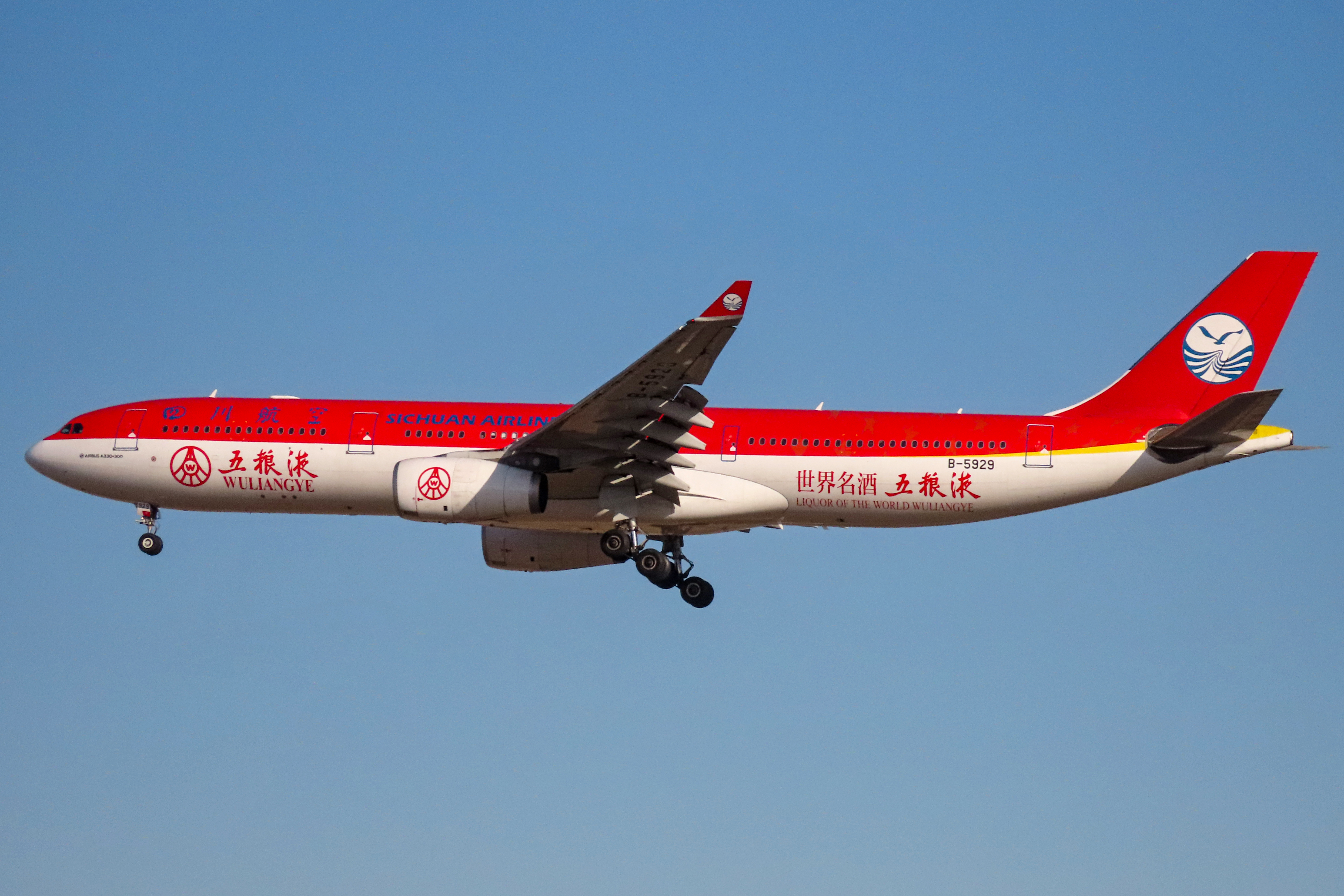 Sichuan 8885 from Chengdu, in Wuliangye advertisement.